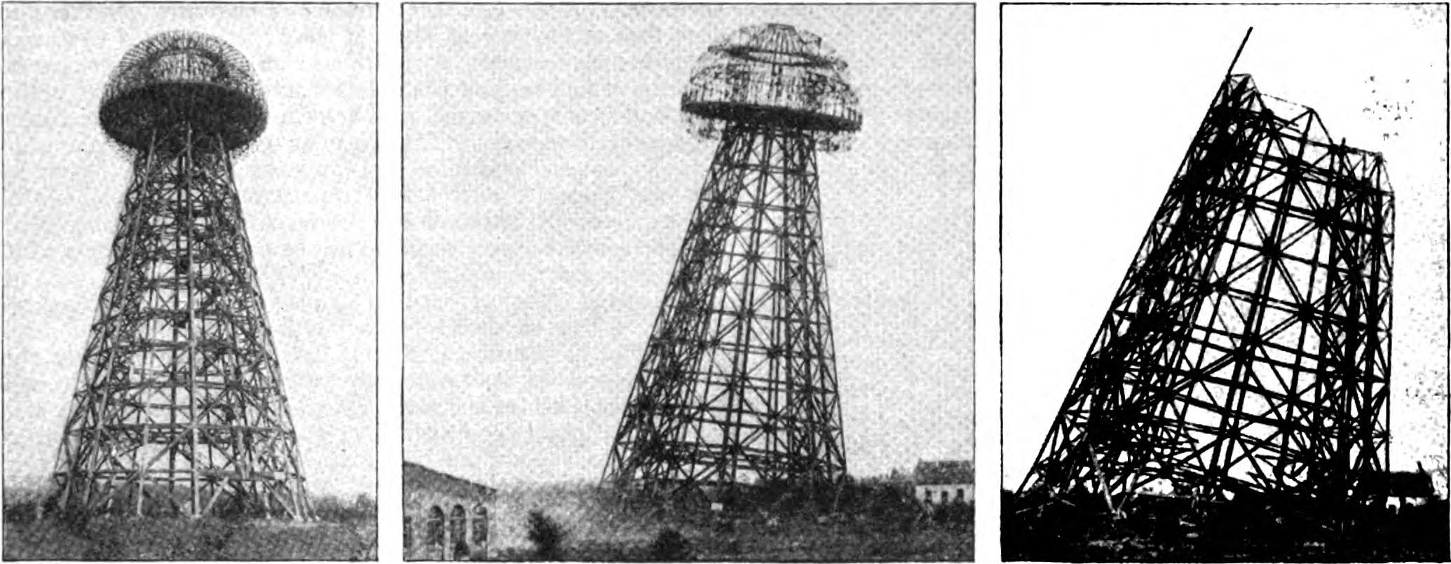 Tesla's Wardenclyffe tower on Long Island in partial stage of demolition. On July 4, 1917 the Smiley Steel Company of New York began demolition of the tower by dynamiting it but it took till September to totally demolish it. Tesla built it in 1901-1903 and sold it to investors as a wireless communication center. He also wanted to demonstrate wireless transmission of electrical energy. Tesla ran out of funding before he could finish it.